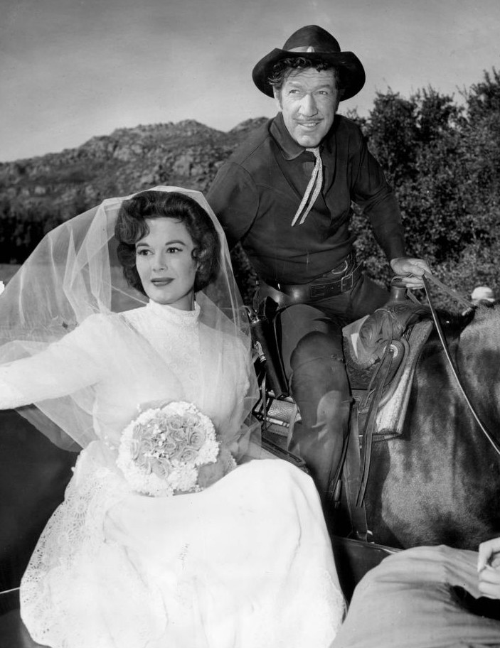 Photo of Richard Boone as Paladin and guest star Patricia Medina from the television program Have Gun, Will Travel.